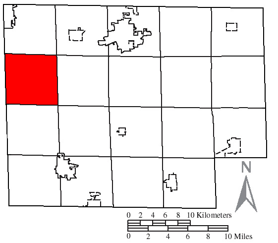 Made by the US Census and modified by myself